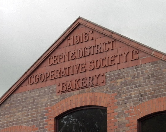 Original photograph taken by John Haynes, October 2005 The former bakery of the Cefn & District Co-operative Society. The tile work on this gable end was produced locally in Ruabon.